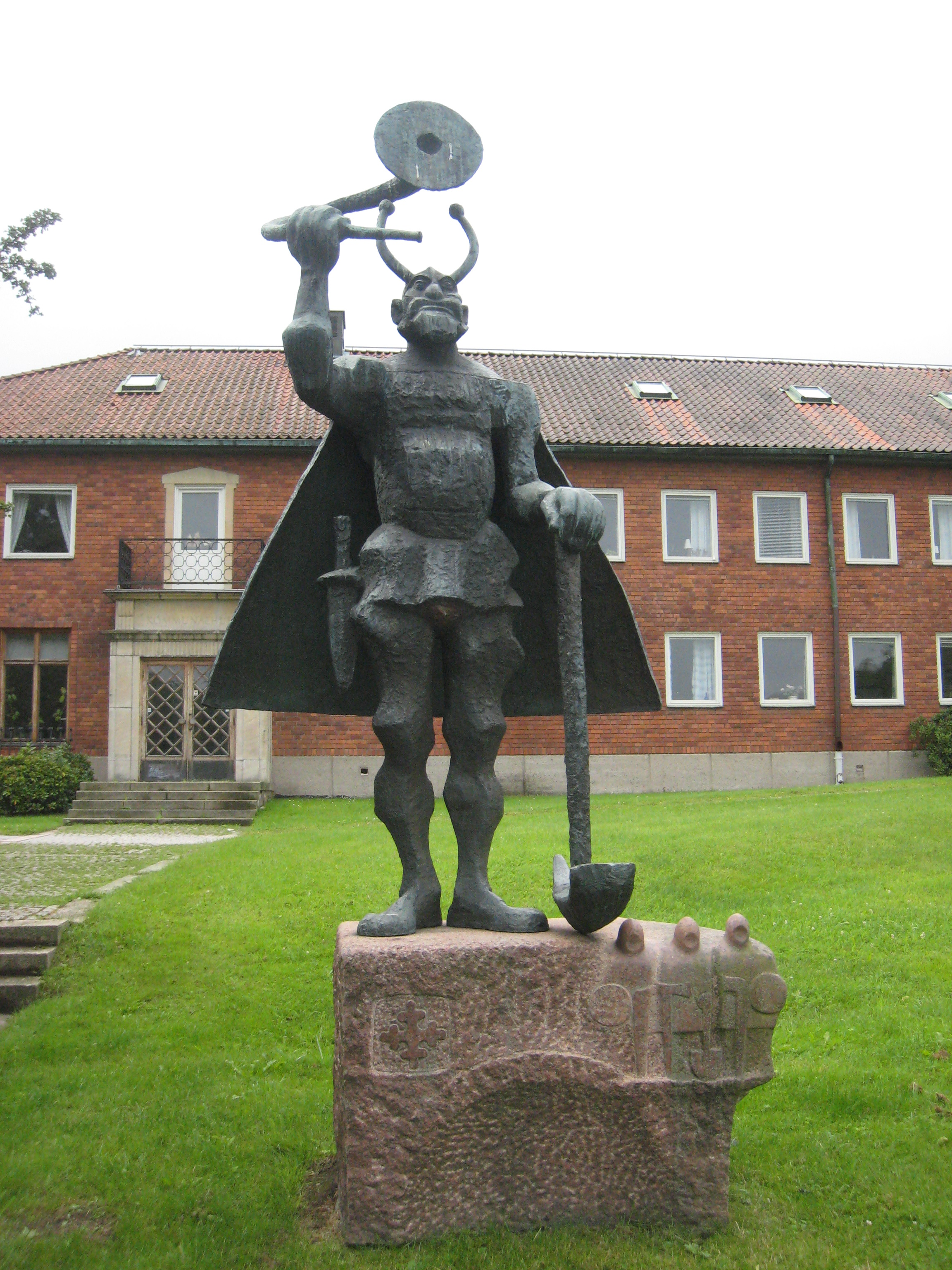 Statue of Jarlabanke, the viking age ruler of Täby, Sweden